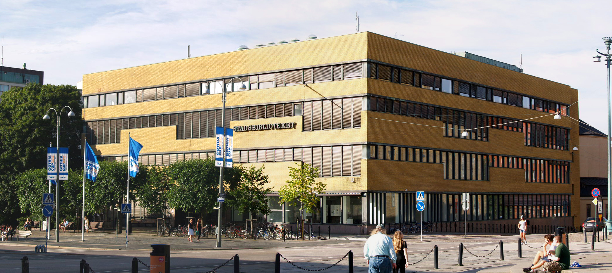 The main library in Gothenburg, Sweden.